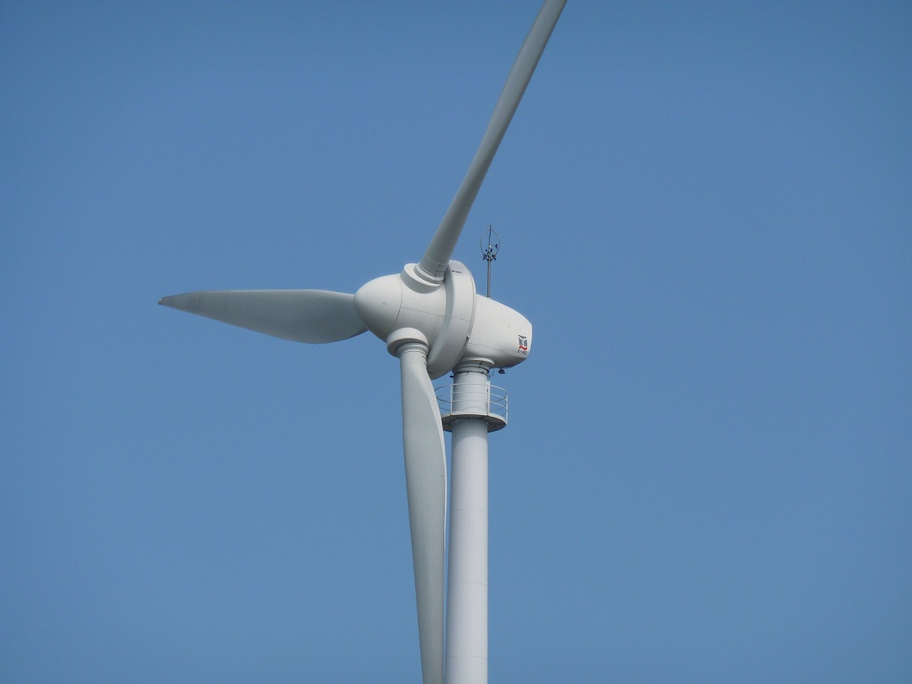 Enercon E-40/5.40 wind turbine in the Freiensteinau wind farm (Hesse, Germany) before the repowering. The original gondola design (with a "collar") of wind turbines of this type built before 2001 is clearly visible.